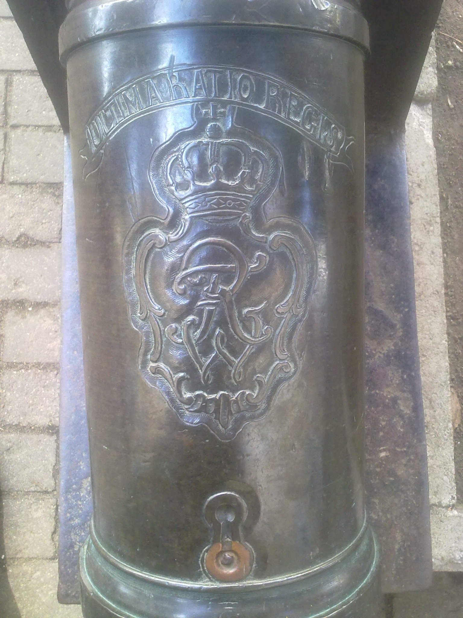 "Ultima Ratio Regis" ("The king's last argument") inscribed on a cannon located in Smolensk, Russia. All Prussian cannons bore this inscription since 1742. The monogram FWR (Friedrich Wilhelm Rex) may refer to the Prussian kings Friedrich Wilhelm II. (1786 bis 1797), Friedrich Wilhelm III. (1797-1840) or Friedrich Wilhelm IV. (1840 -1861)